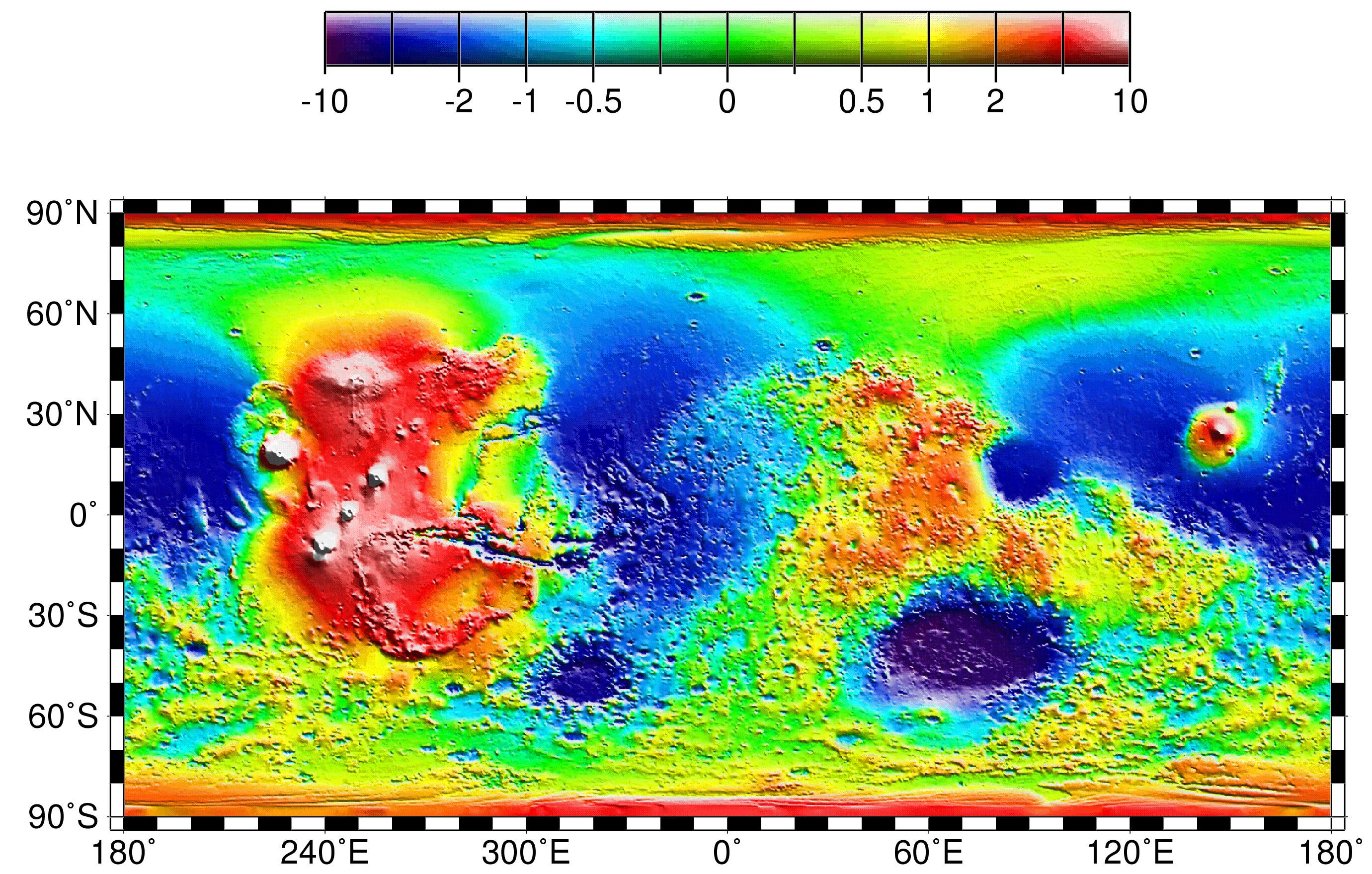 Map of Mars' topography with zonal spherical harmonic degree 1 (COM/COF offset along the polar z-axis) removed. The projection is rectangular to show topography from pole to pole. Note the general similarity in elevation between the northern and southern hemispheres. The figure highlights the two other significant components of martian topography: the Tharsis province and the Hellas impact basin. Here we have not removed shorter-wavelength topographic features, including those comprising the dichotomy boundary scarp.